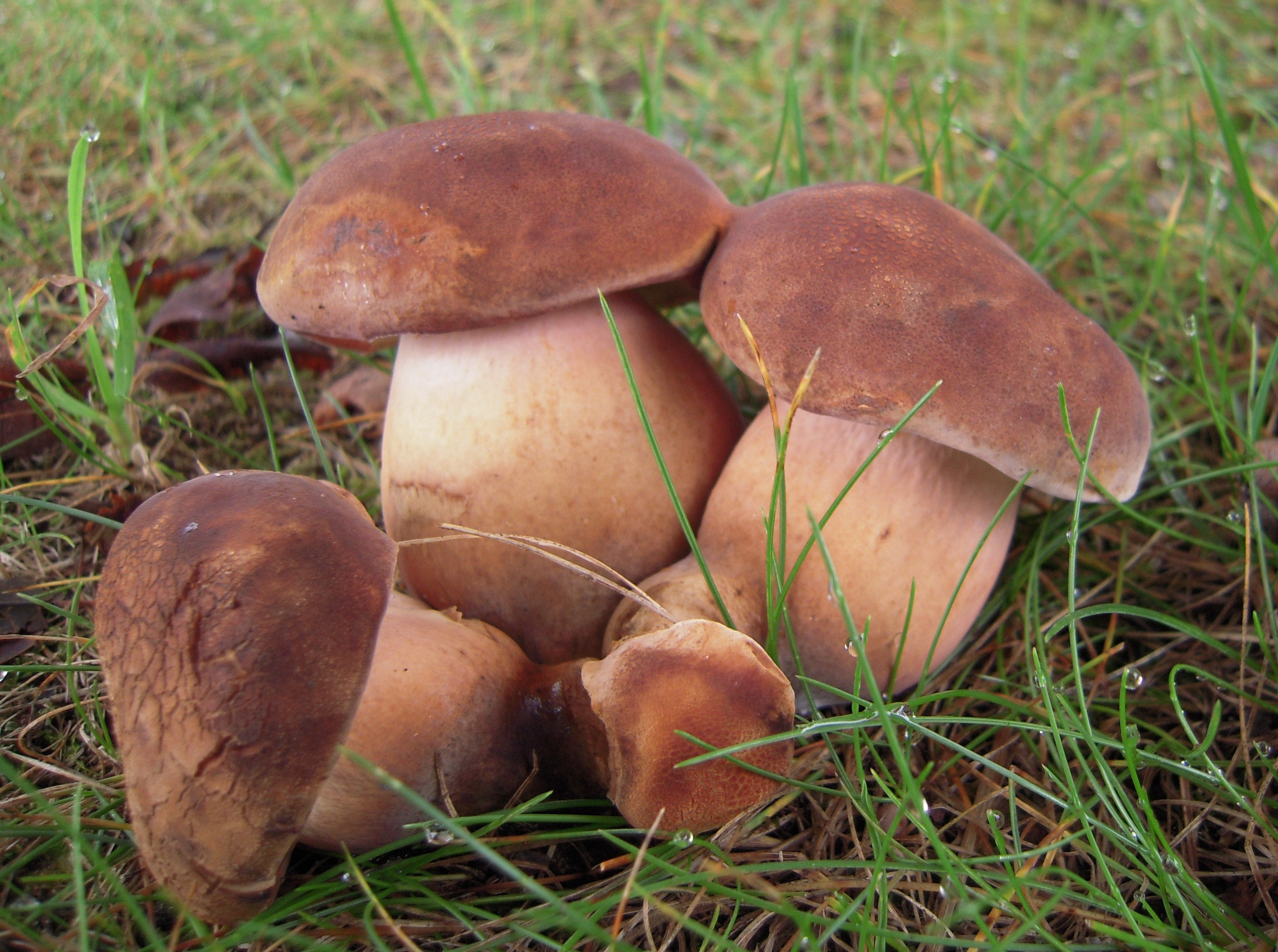 Fruit bodies of the bolete fungus Tylopilus ferrugineus (Frost) Singer. Photographed in Woodloch Pines Resort, Pennsylvania, USA. See Mushroom Observer page for detailed collection notes.